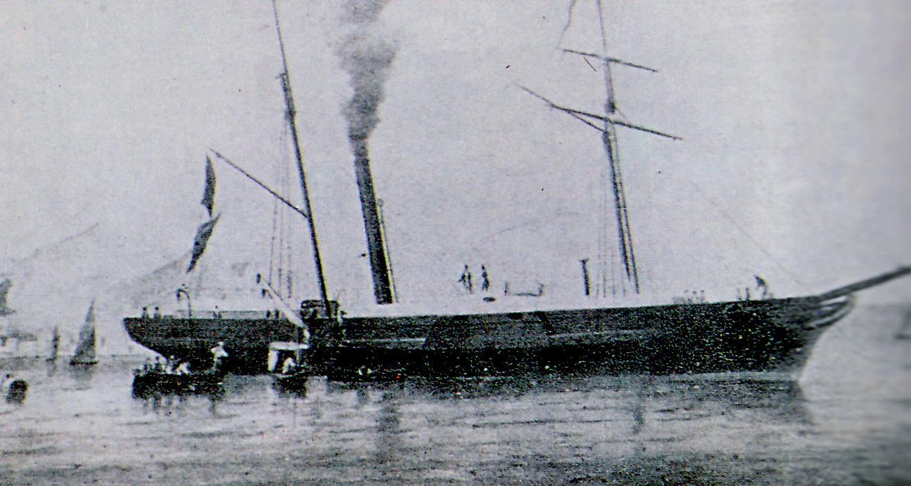 il piroscafo Gulnara nel 1835 Steamboat Gulnara in 1835